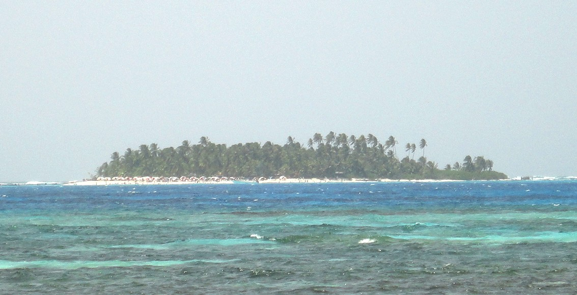 Sucre Cay (Johnny Cay) from west